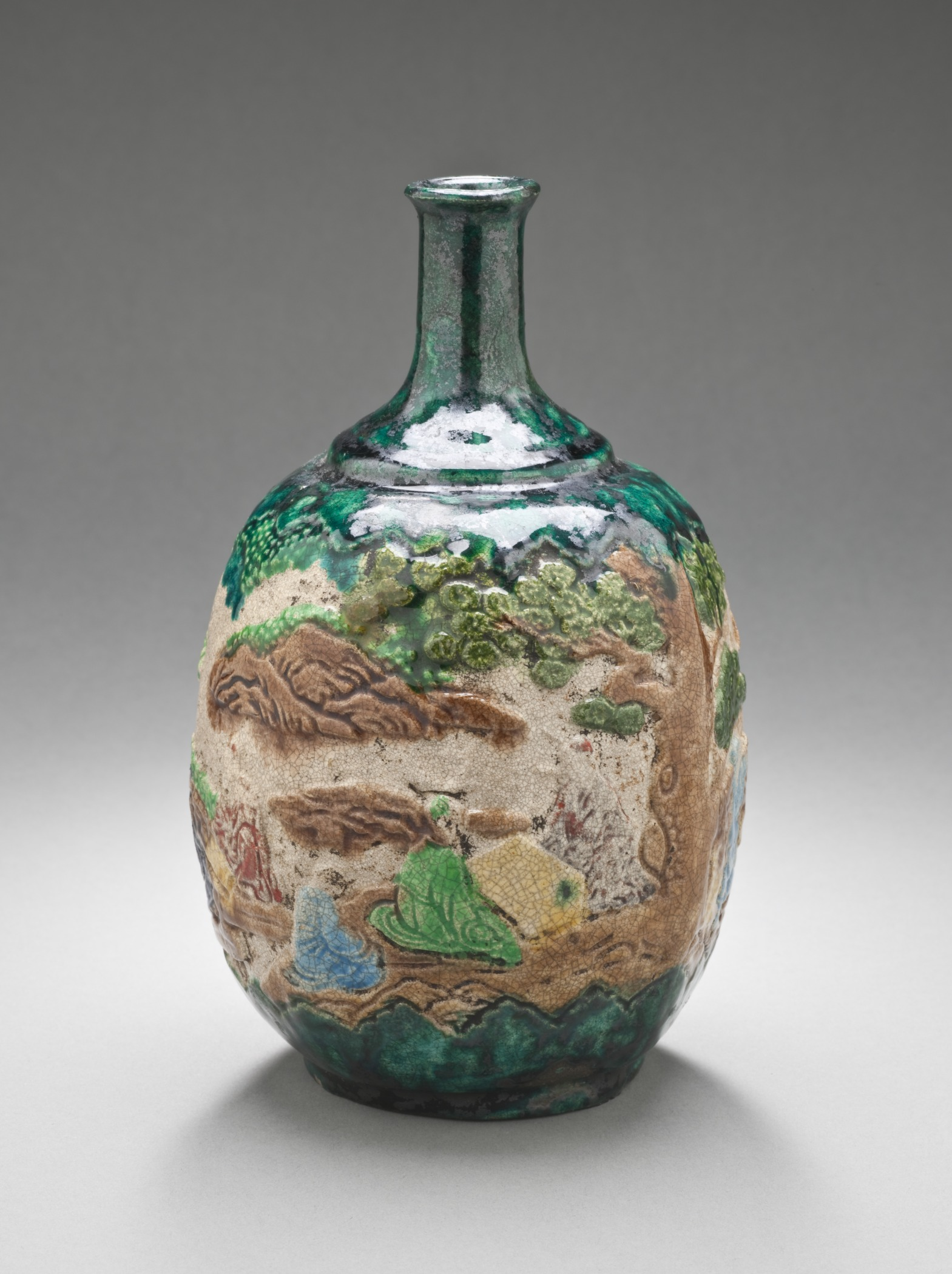 Japan, Edo period (1615-1868), 18th century Alternate Title: Tokkuri Furnishings; Accessories Gennai (Shido) ware; earthenware with clear glaze and colored enamels Height: 7 1/4 in. (18.42 cm); Diameter: 4 in. (10.16 cm) Gift of James D. and Veronica H. Roorda (M.2006.214.21) Japanese Art